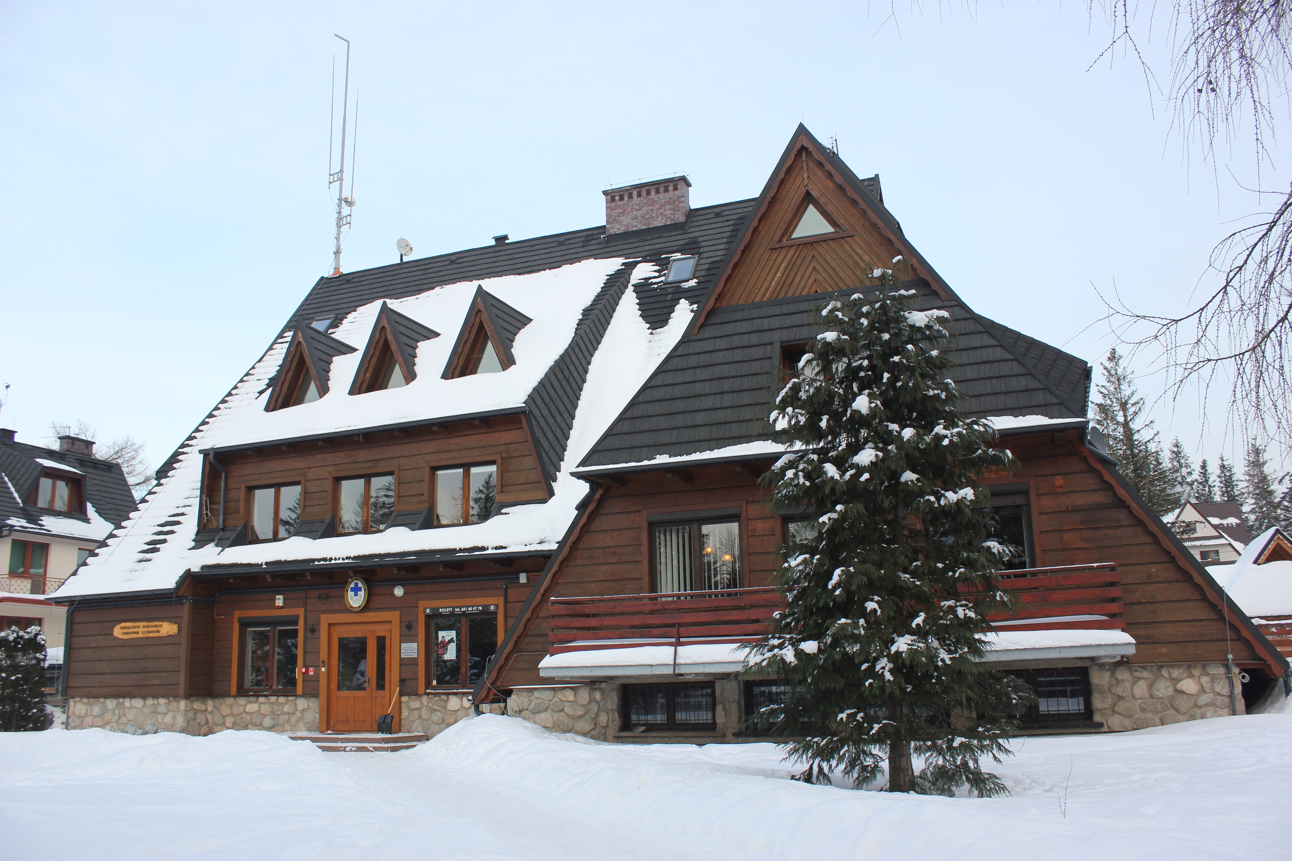 Zakopane - the seat of the Tatra Volunteer Mountain Rescue